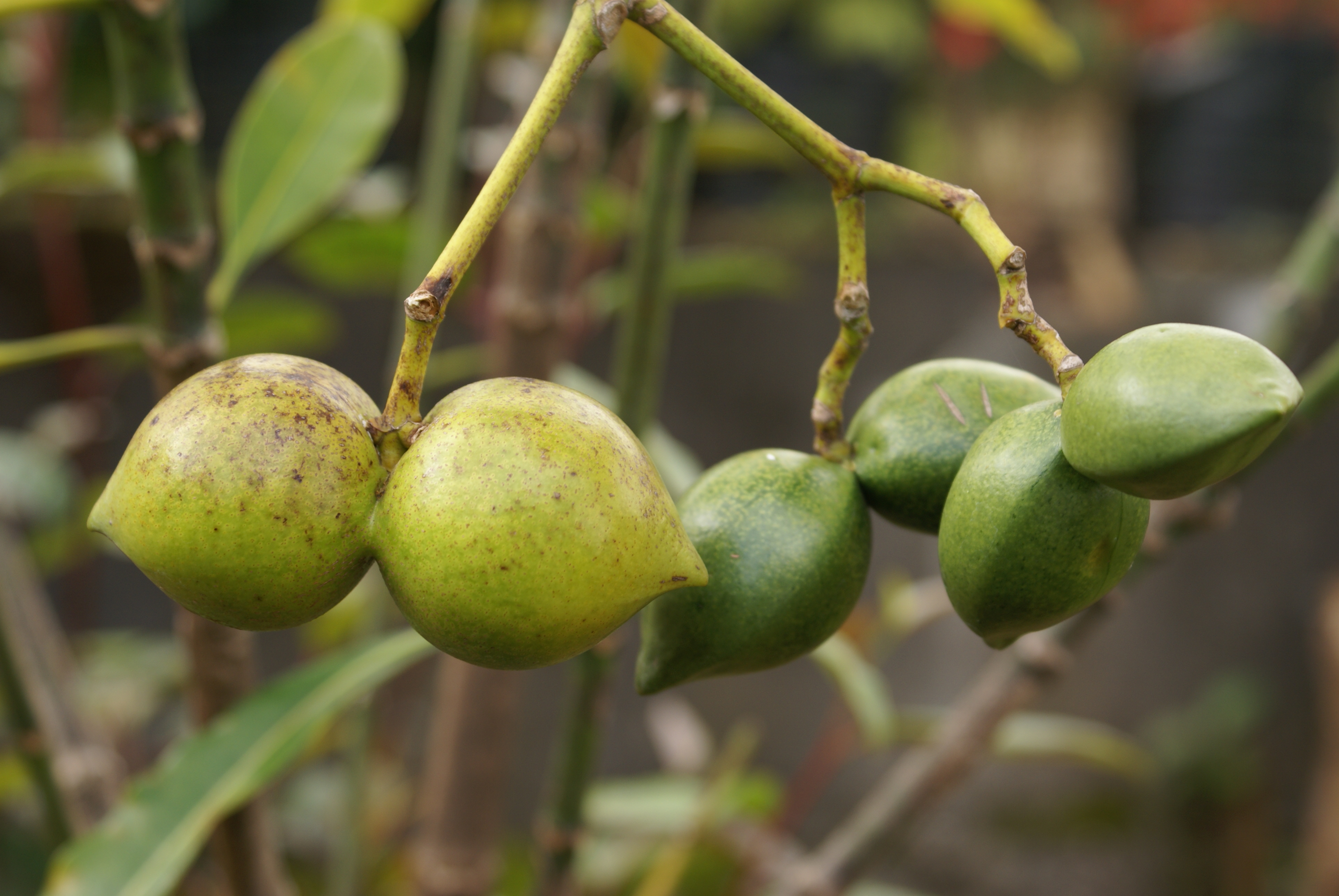 Fruit of Ochrosia borbonica (picture shot in a nursery)